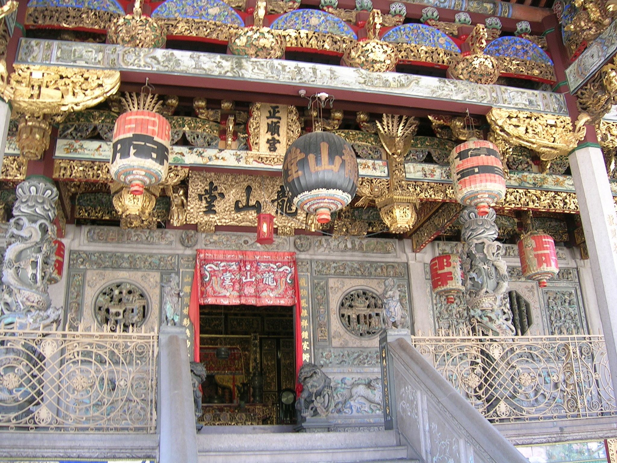 Main entrance of the Khoo Kongsi